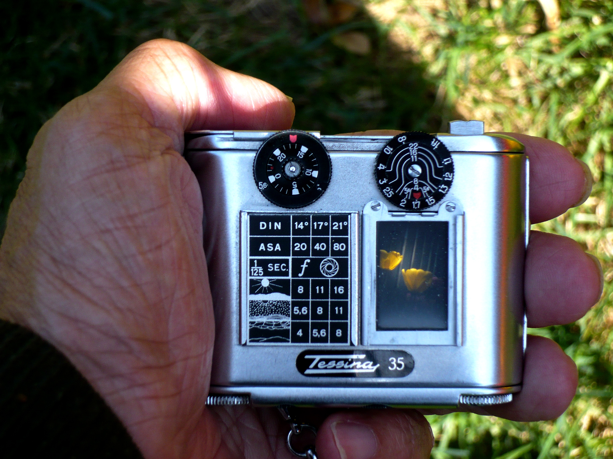 Photographing tulips with Tessina 35